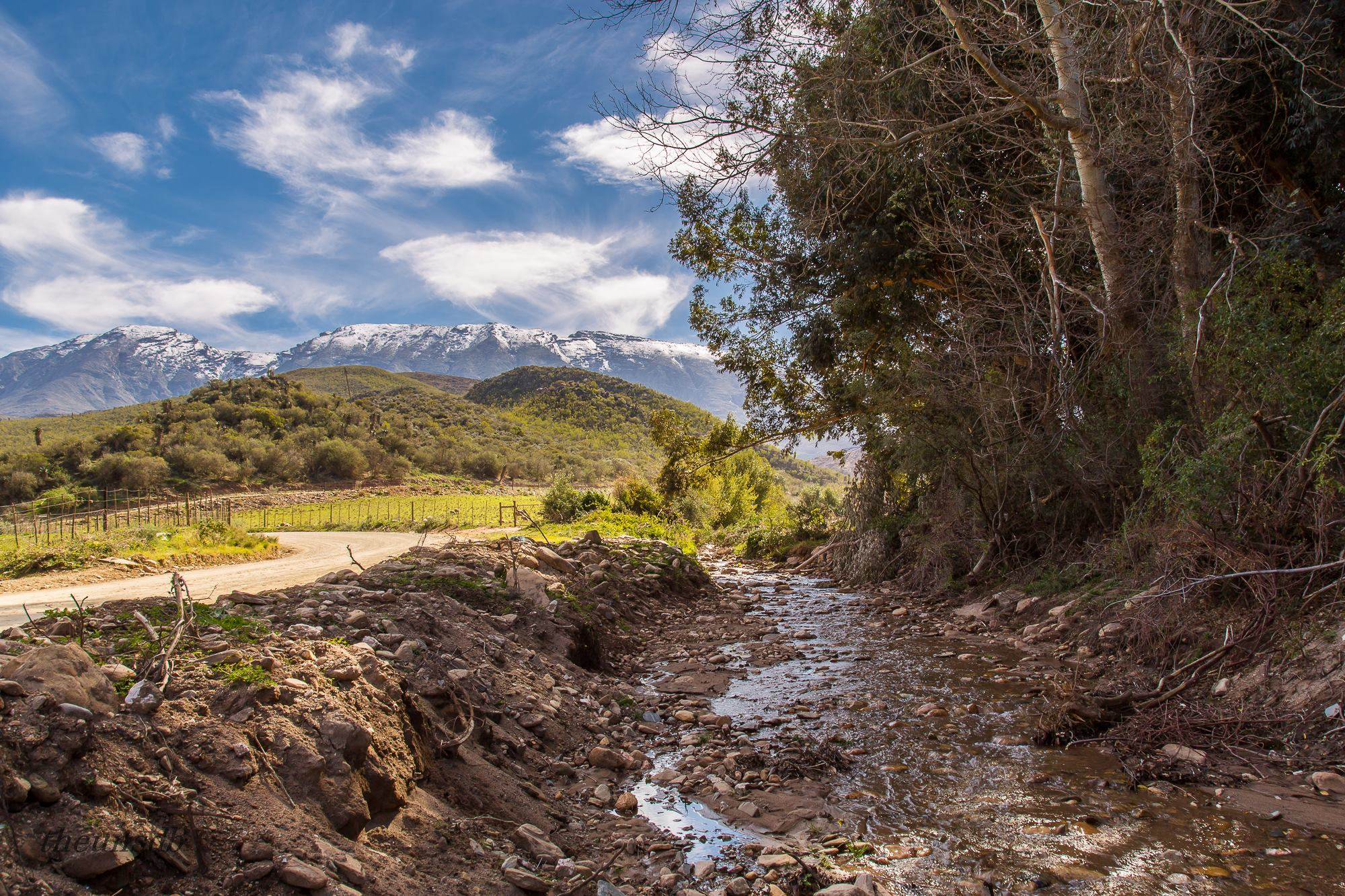 Oudemuragiepad, outside Oudtshoorn, South Africa - Nelsrivier, with Groot Swartberg on the horizon